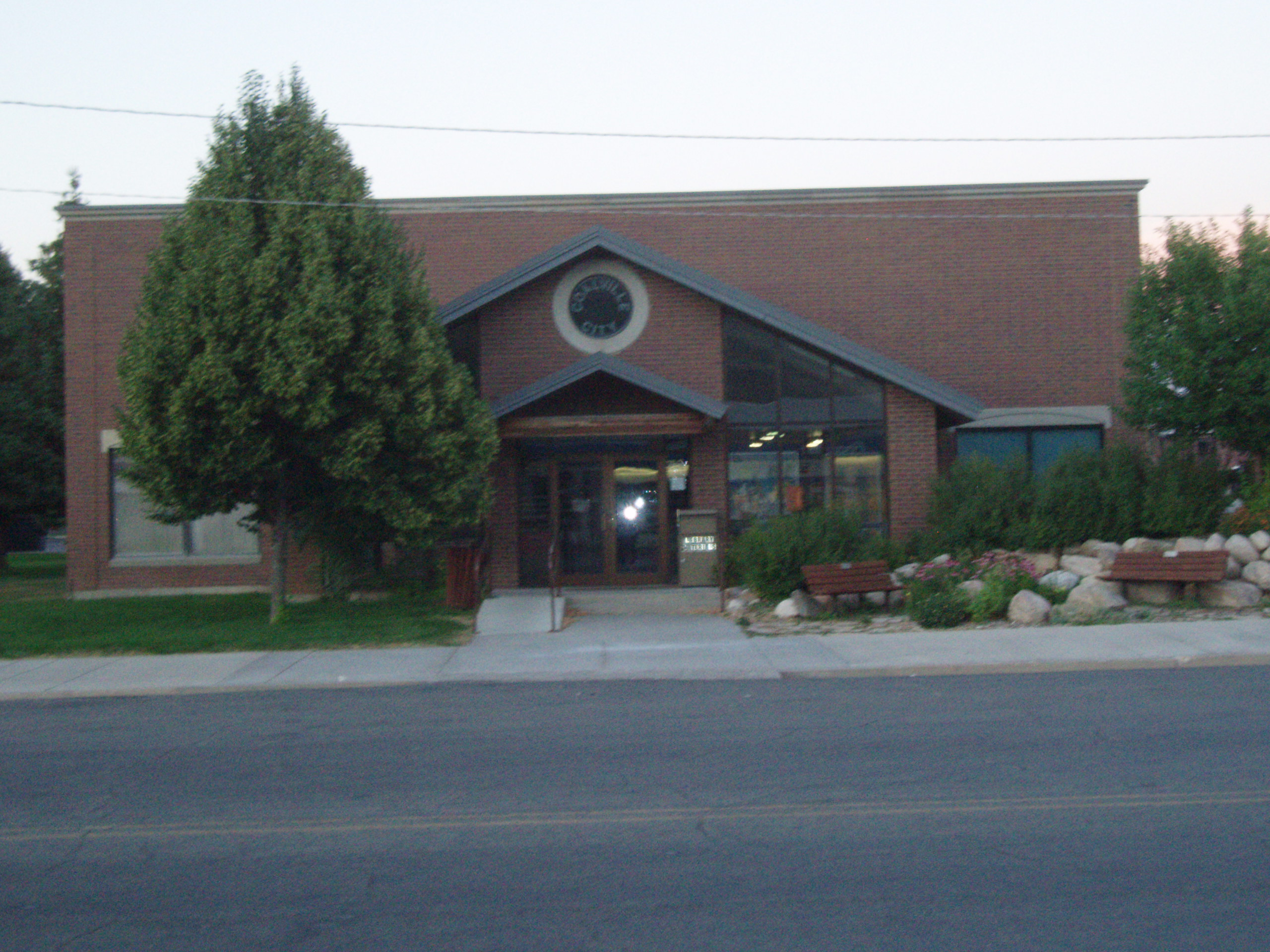 Coalville Main Street Library (Closing), Coalville, Utah, United States.